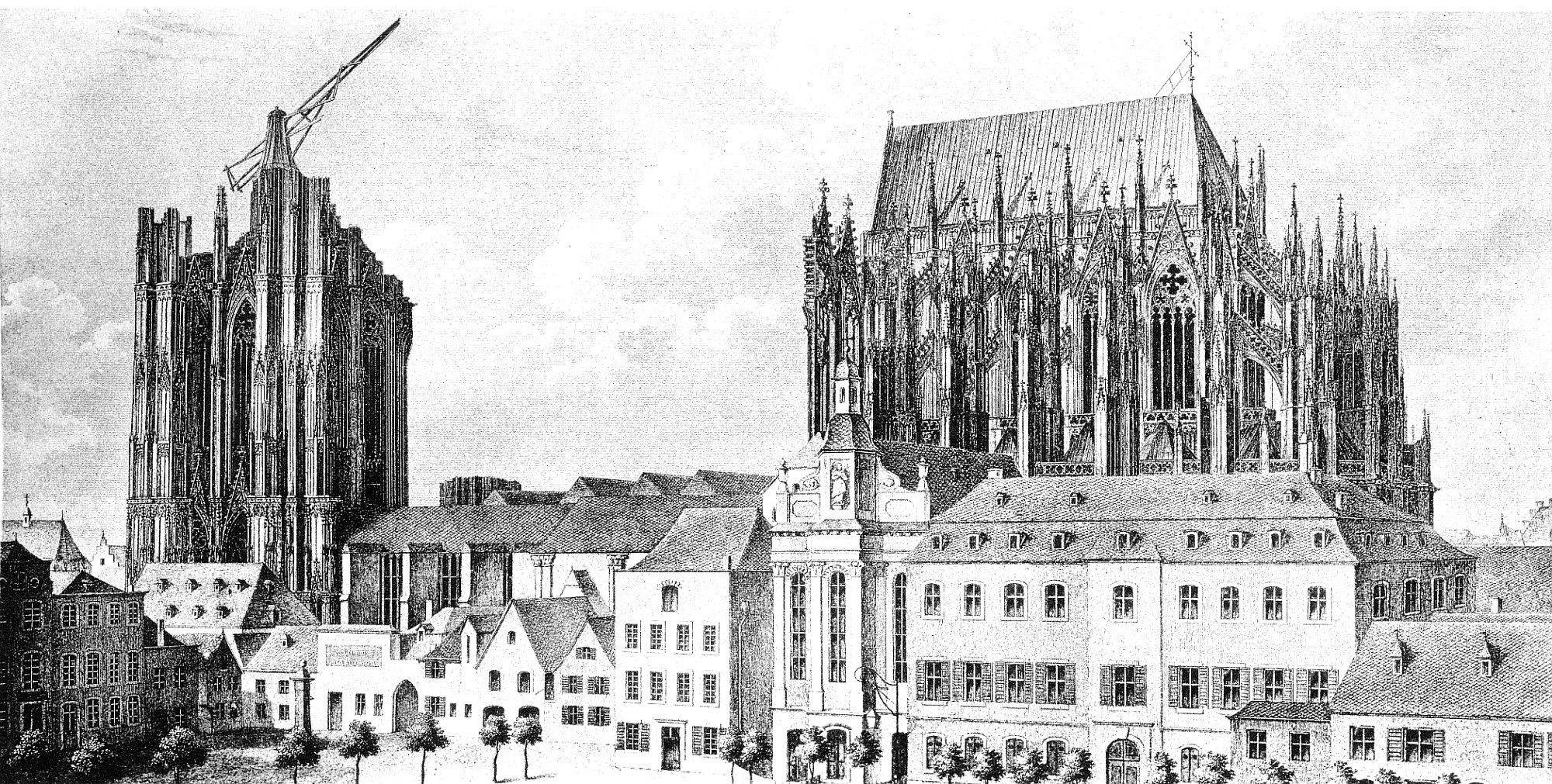 This is a scan of the historical document